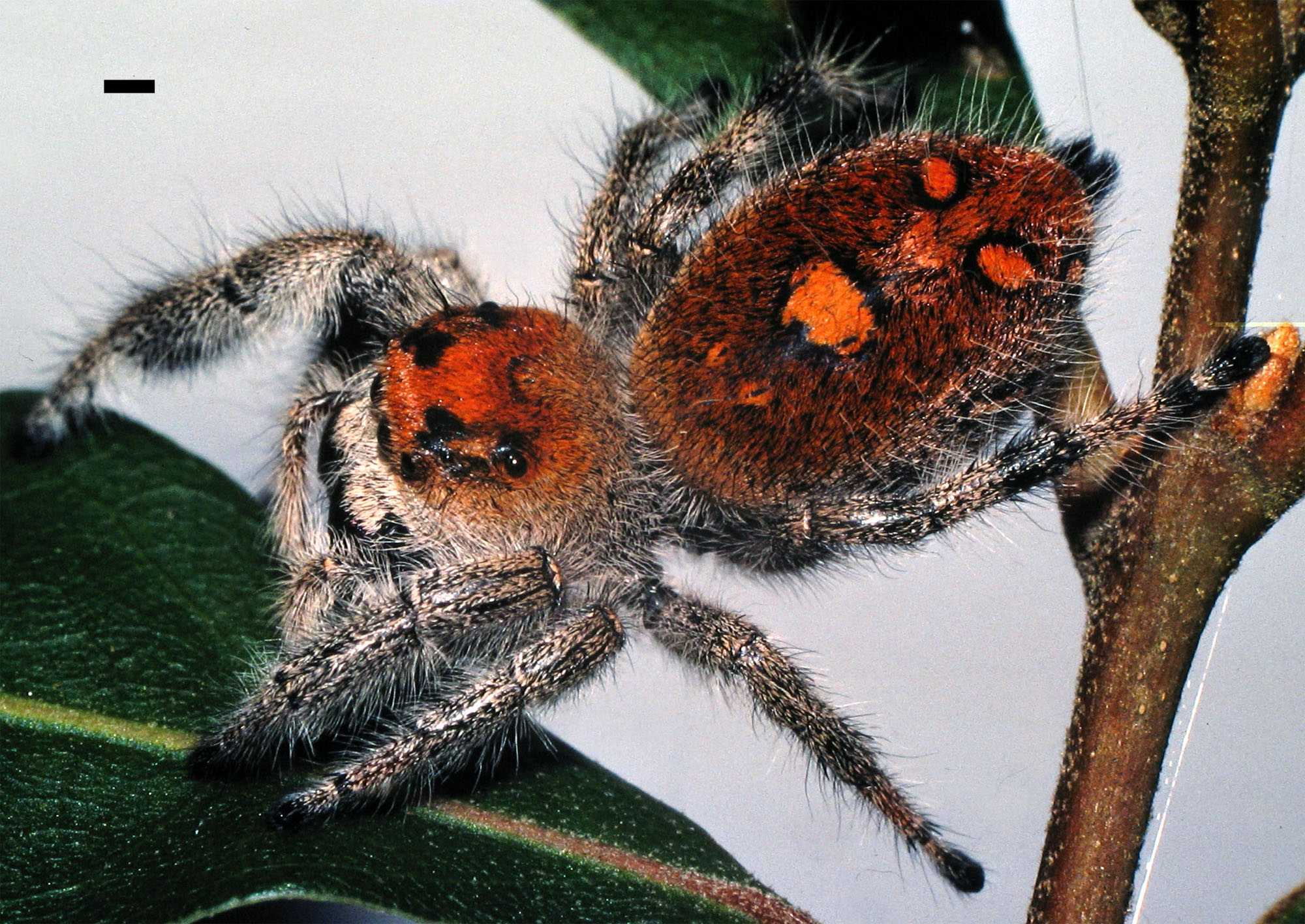 Female Phidippus regius jumping spider of the red-orange or mineatus form from Ocala National Forest, Florida, USA